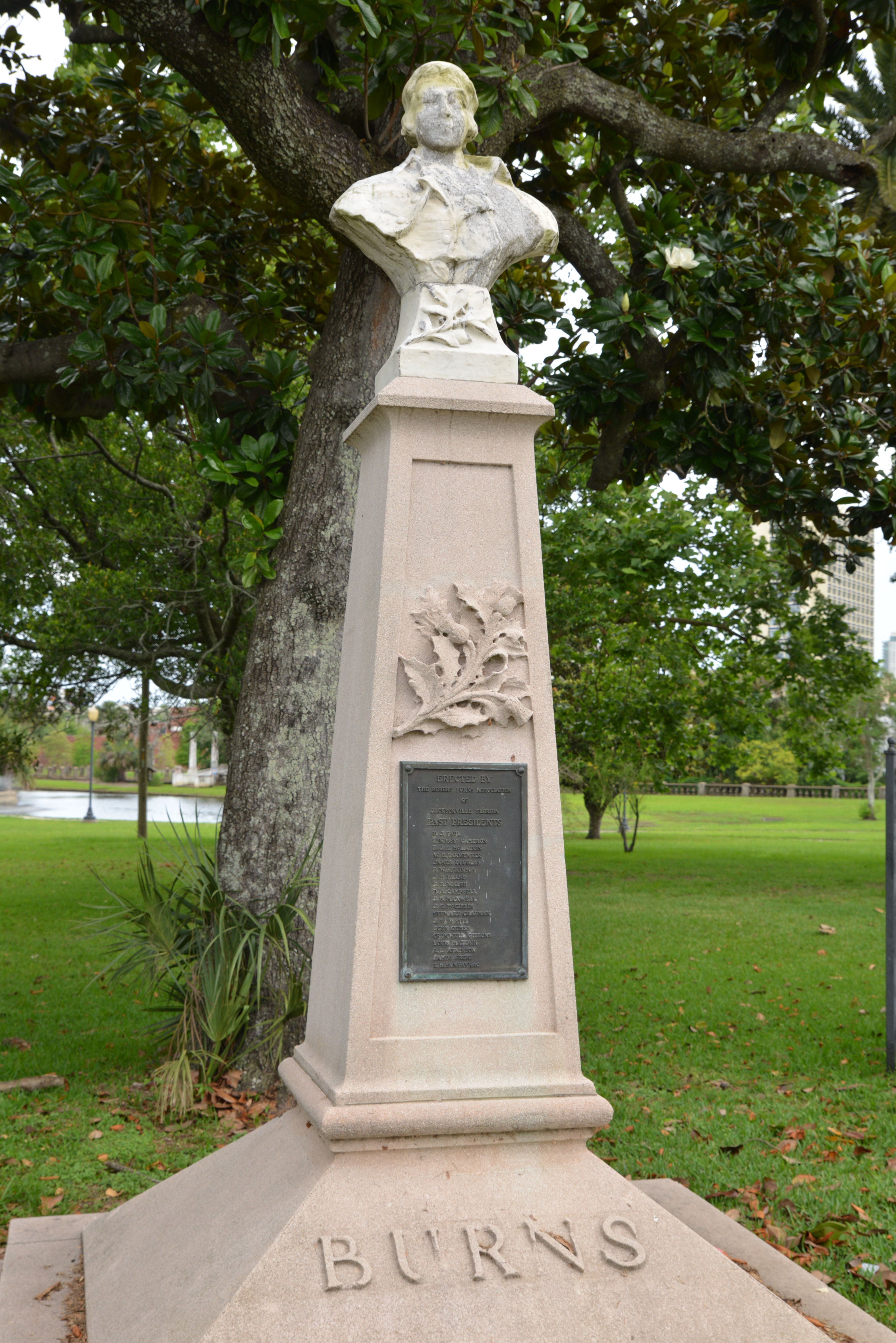 Confederate Park in Jacksonville, Florida, U.S. - 1930 statue of poet Robert Burns, by the Robert Burns Association of Jacksonville